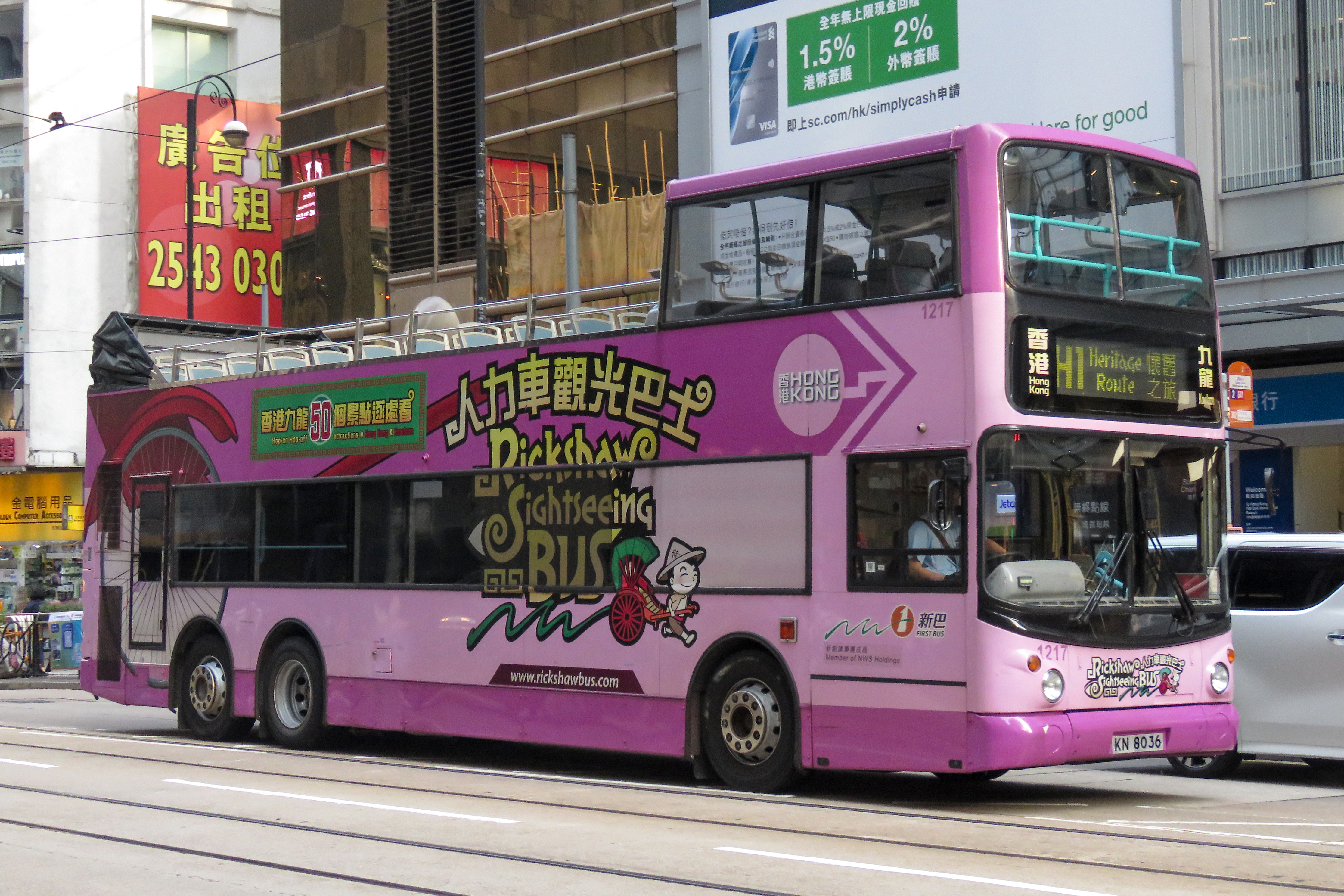 This fellow just passed by...